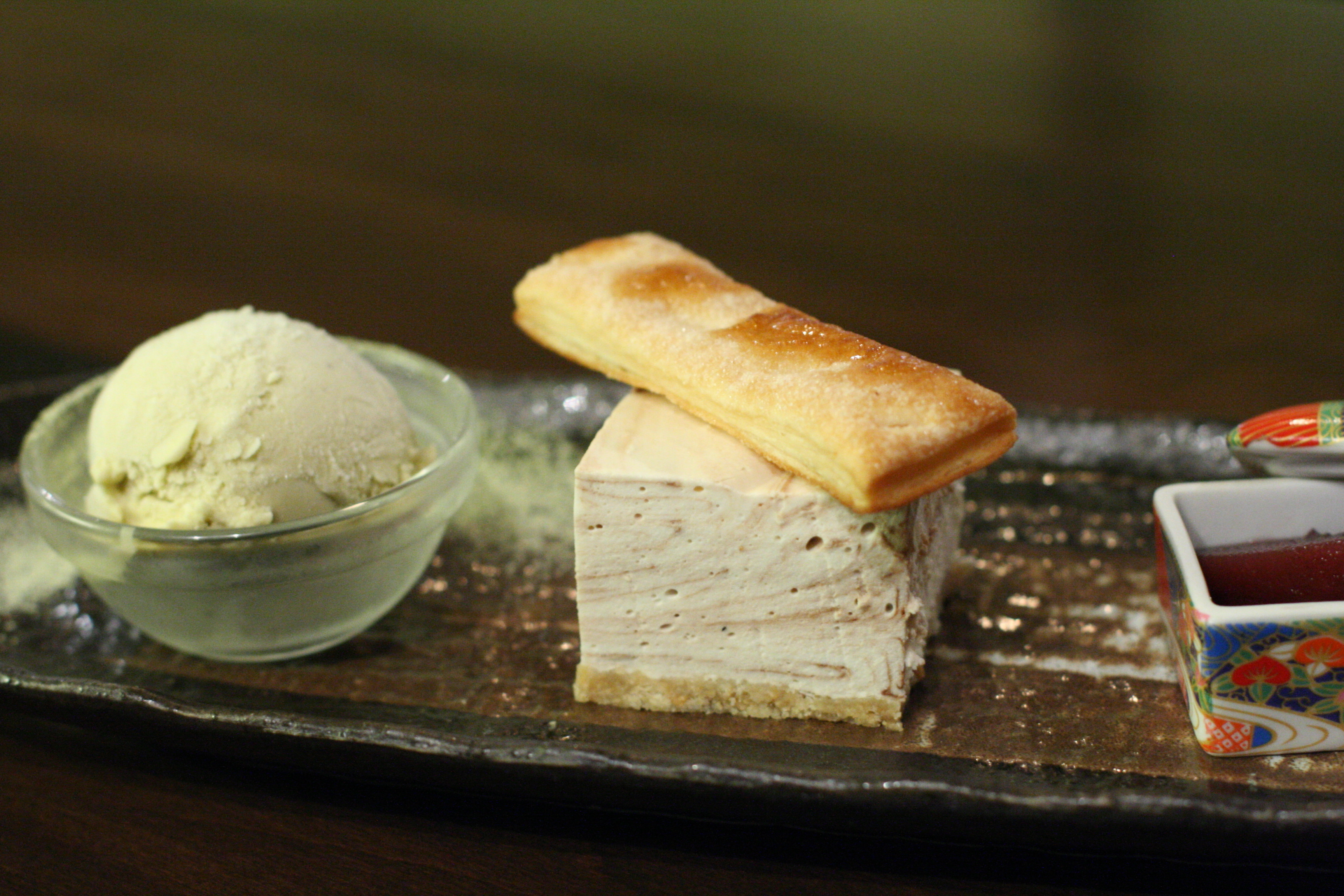 from ShuRaku Japanese restaurant in Vancouver, BC, Canada (833 Granville Street, phone 604-687-6622) ($6.99) View my restaurant review from my visit at